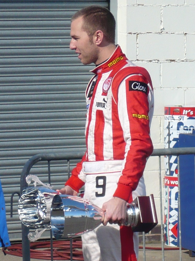 Chris van der Drift with his podium trophies at Silverstone's 2010 SF round.